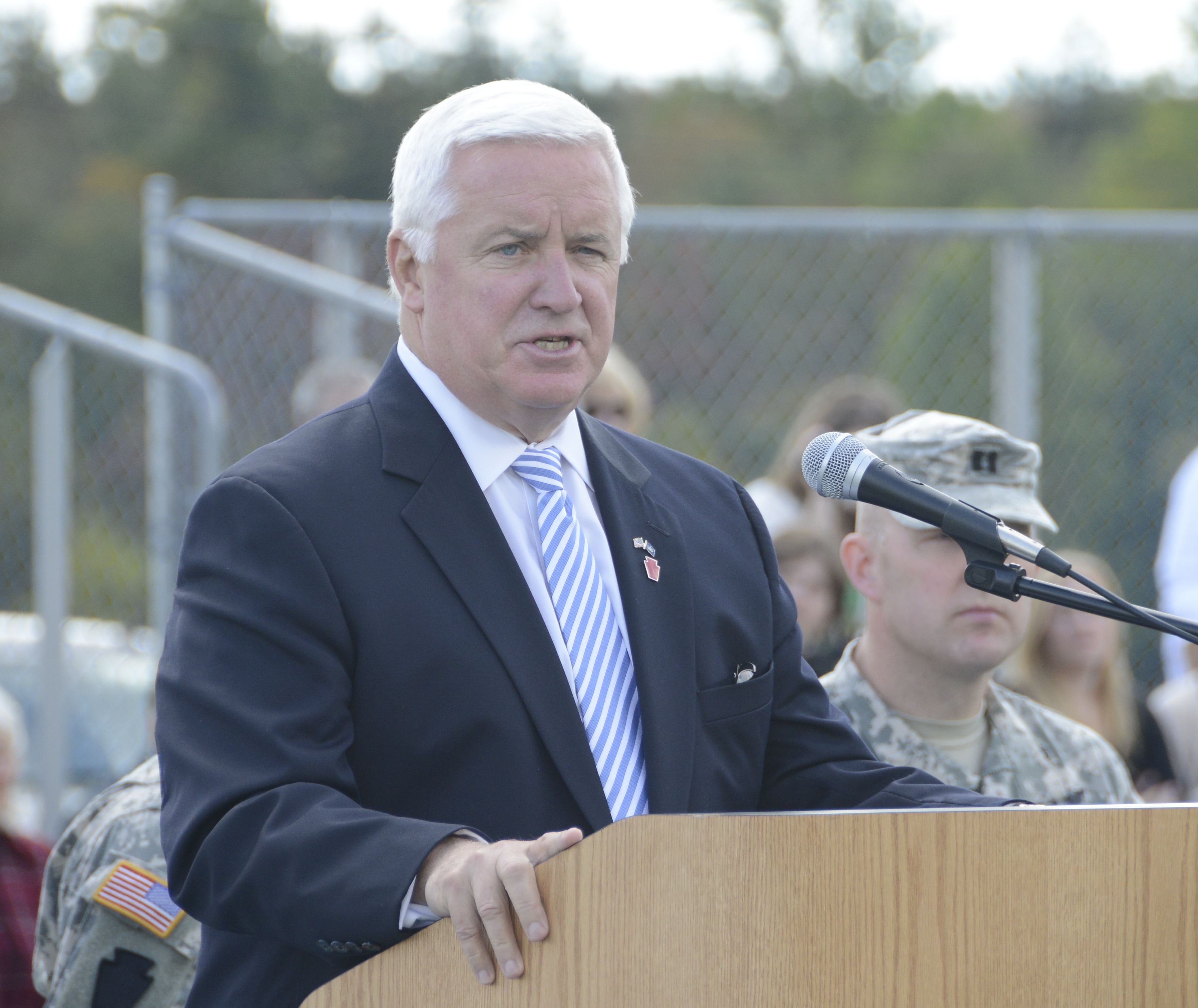 FORT INDIANTOWN GAP, Pa. -- Some 1,500 members of the 55th Heavy Brigade Combat Team were honored during a ceremony Sept. 30. State Governor Tom Corbett, adjutant general Maj. Gen. Wesley Craig, 28th Infantry Division commanding general Brig. Gen. John Gronski, and 55th Brigade commander Col. Michael Konzman were among those who spoke at the event. (Pennsylvania National Guard photo by Staff Sgt. Matt Jones/released